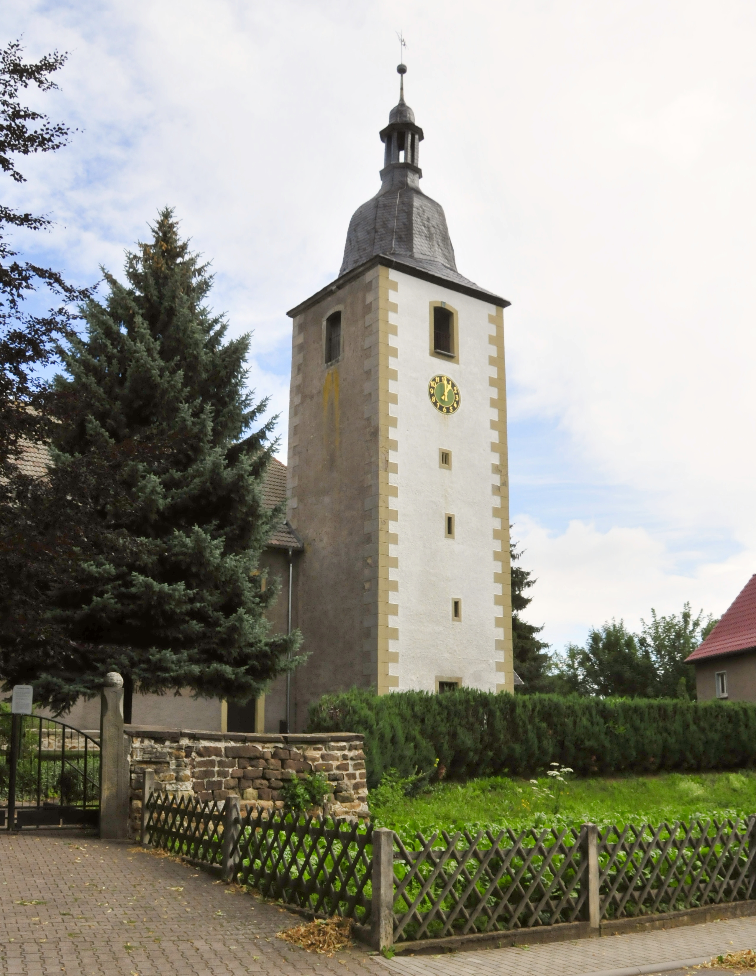 Westhausen (Gotha), church